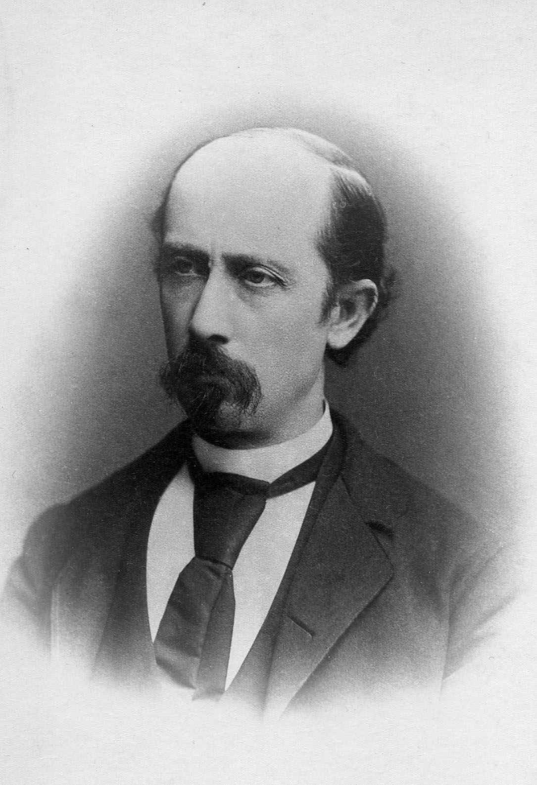 William Henry Stanton, Congressman from Pennsylvania